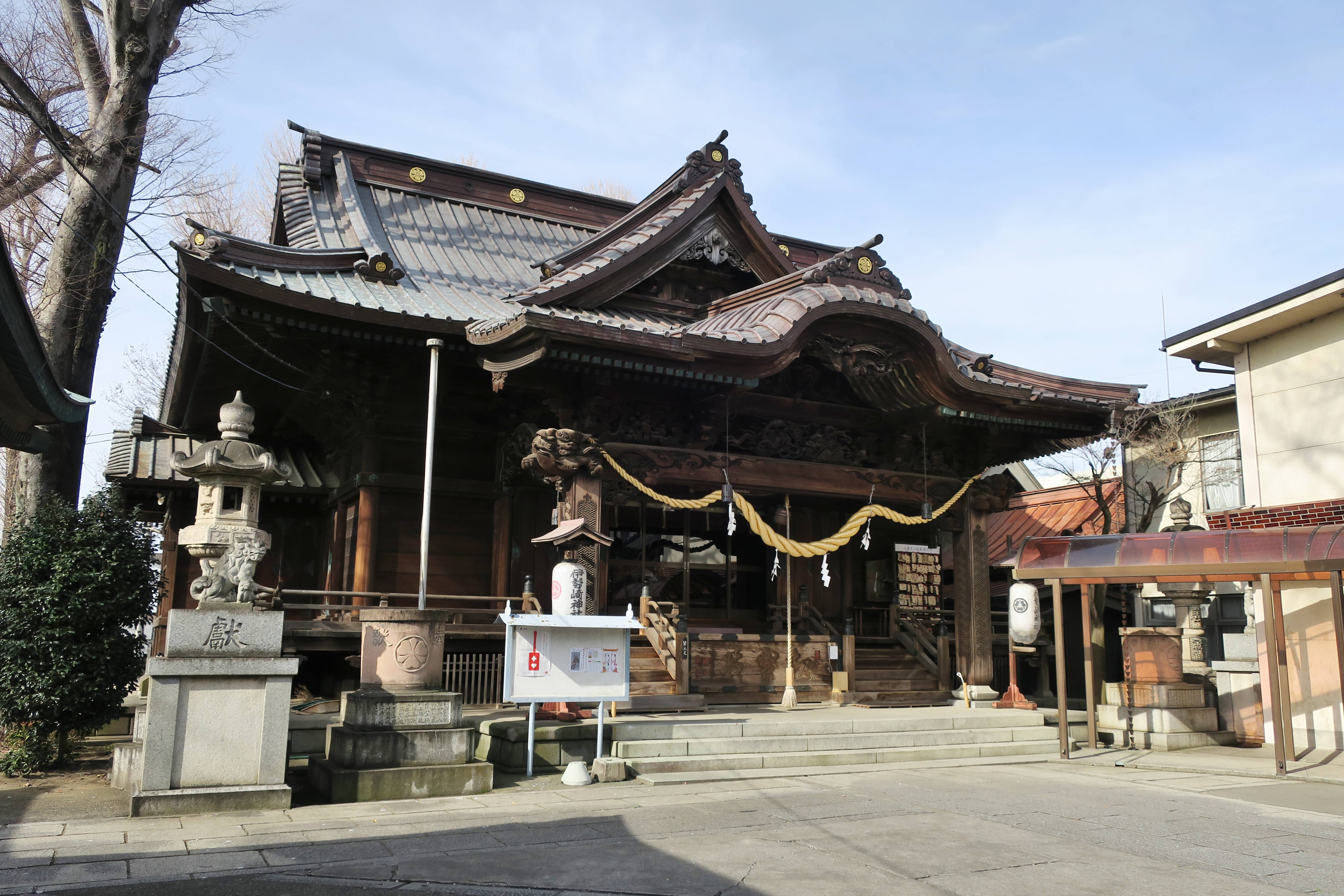 Isesaki-jinja (Isesaki, Gunma).